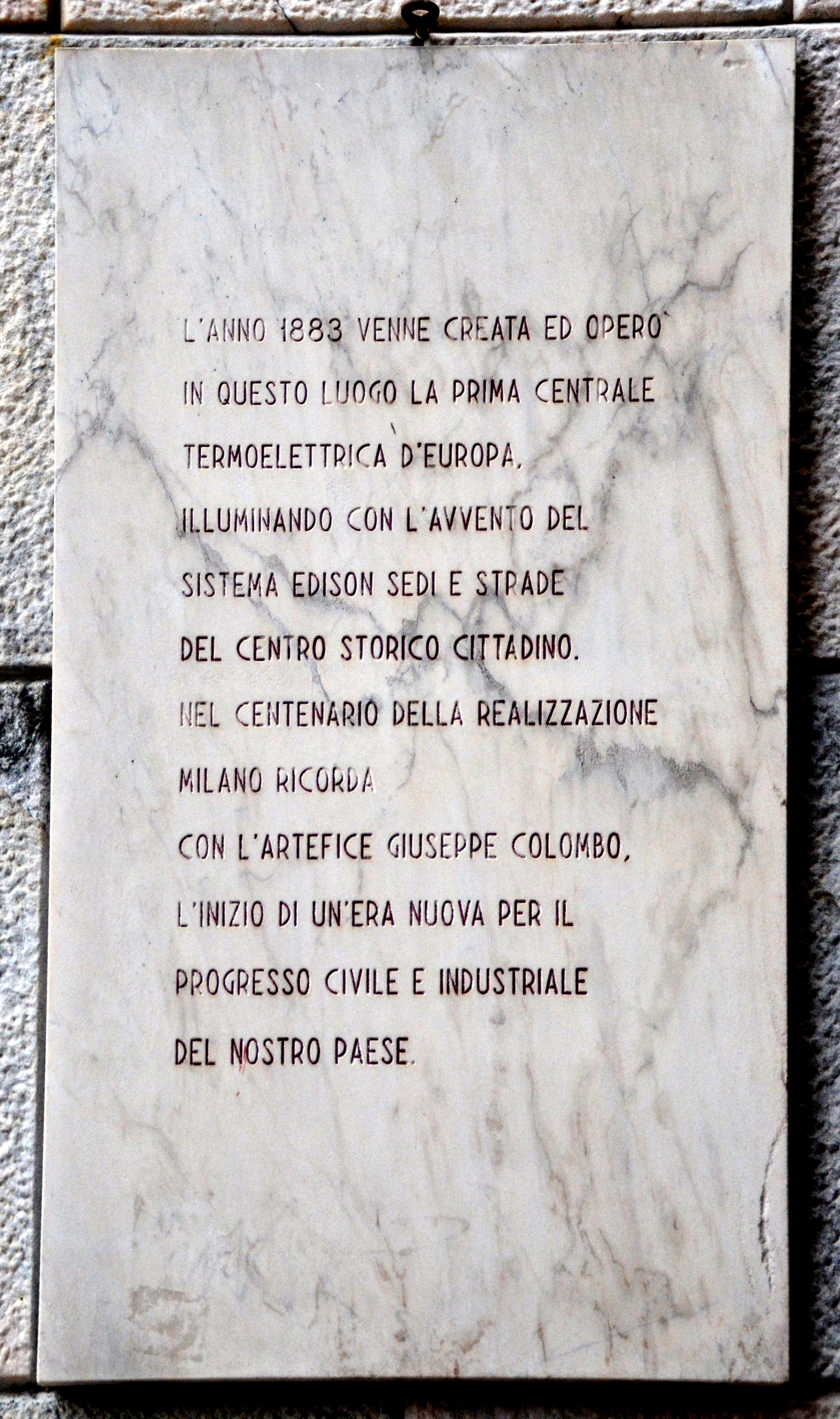 this plate was placed by the municipaly of Milano (Italy) to rememebr the existence of the first European thermal power station built 1882